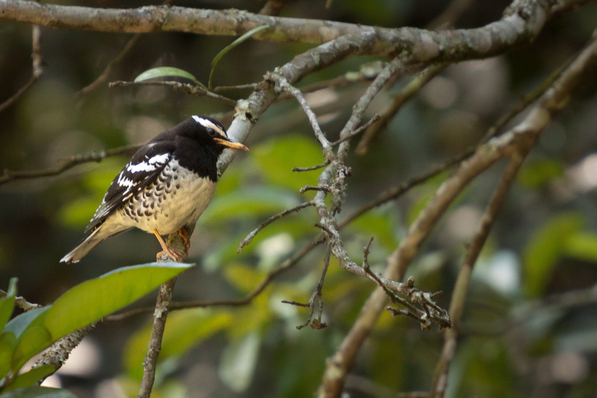 A male Pied Thrush in Nandi Hills, Karnataka, India.